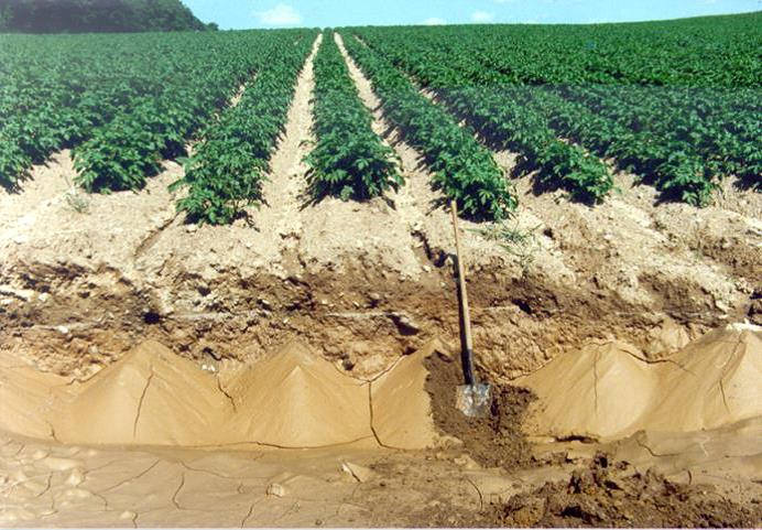 Potato field losing soil, from erosion, each time the soil is turned.